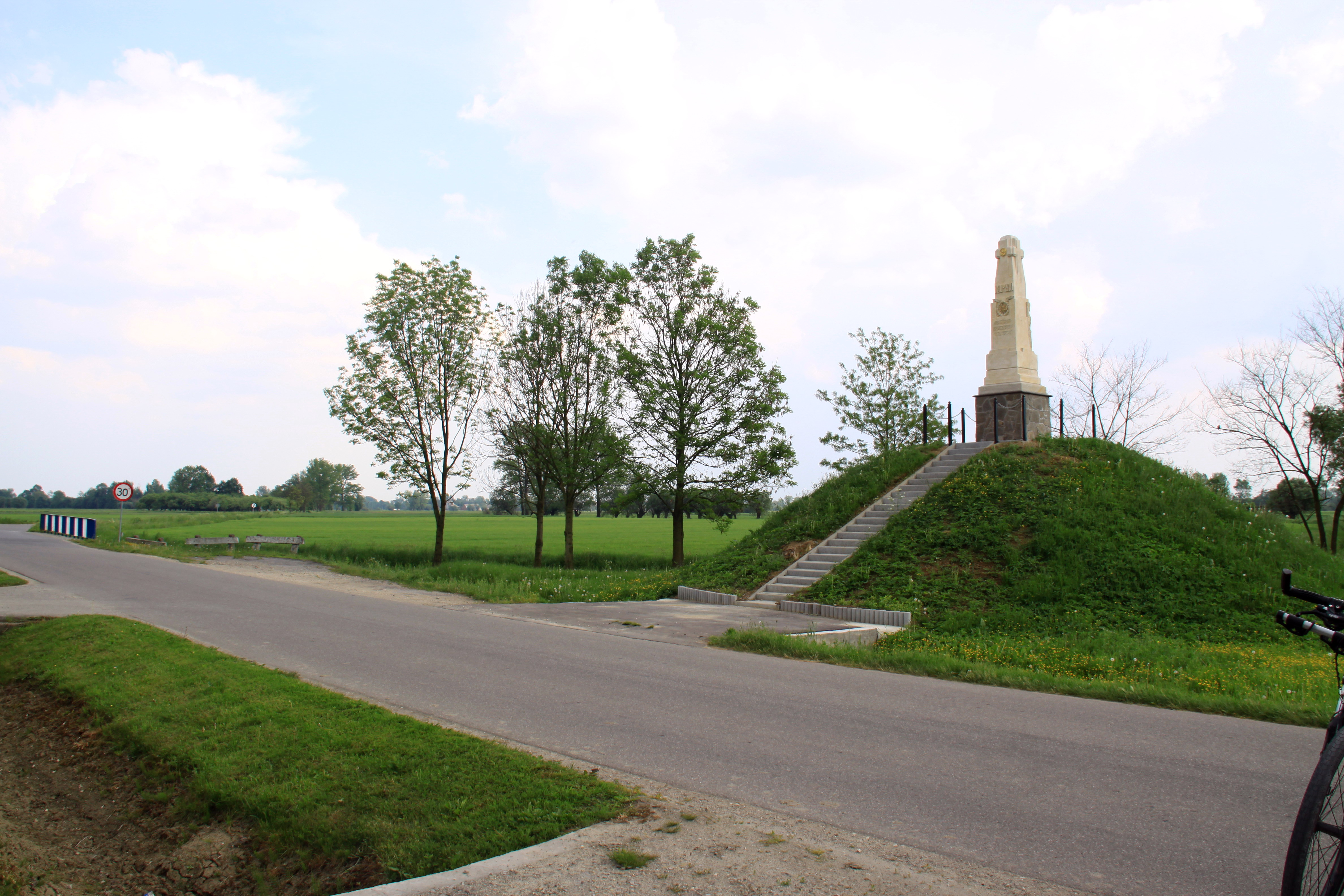 Grunwald Monument 1410-1910 in Gręboszów.